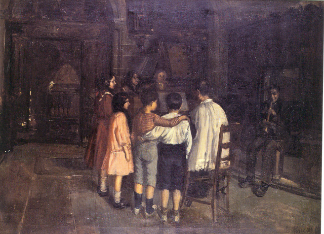 Rehearsing a Mass